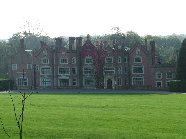 Great Witchingham Hall. HQ of Bernard Matthews a brand owner of turkeys and turkey products, which are bred and raised in Norfolk including on the historic manorial estate.